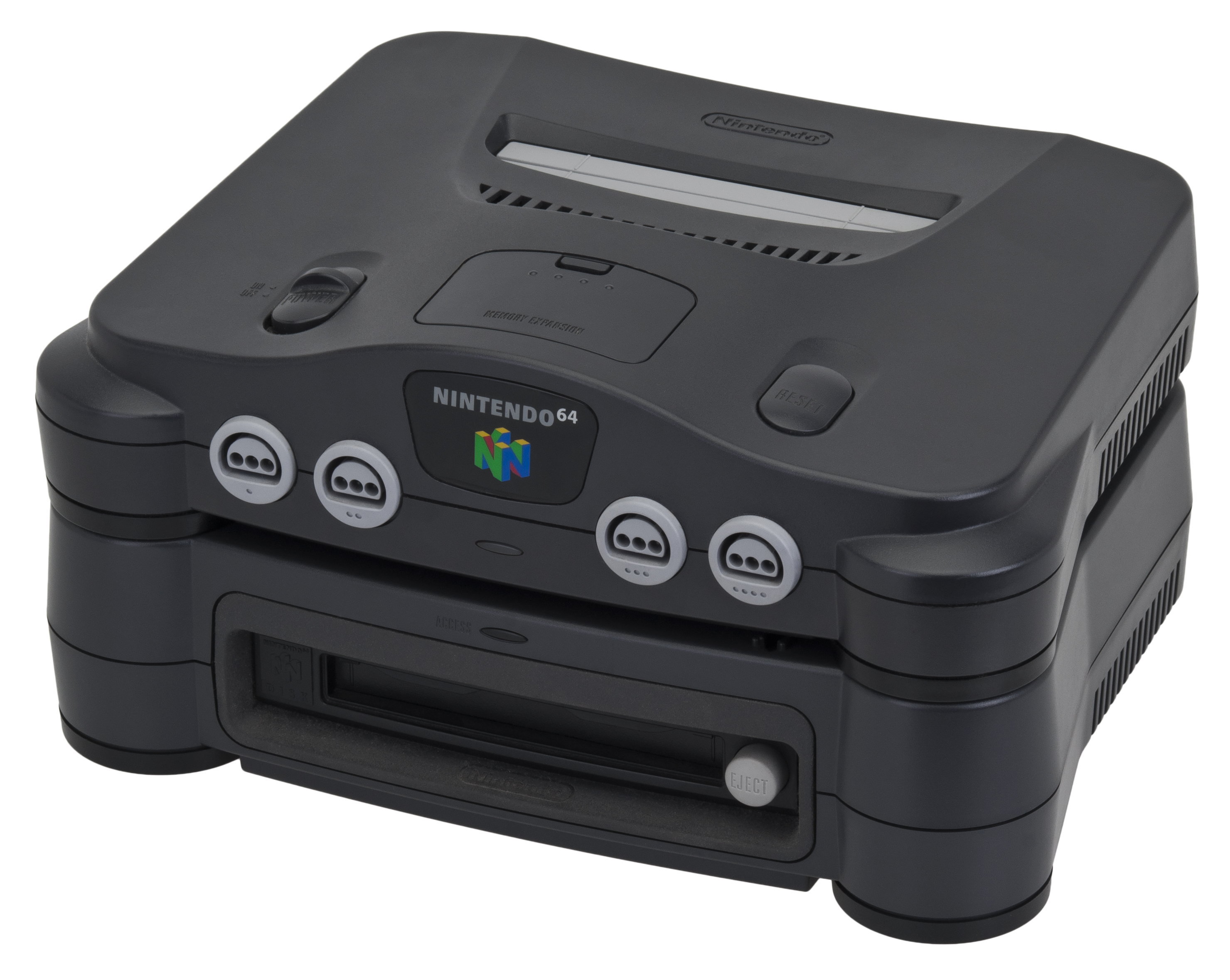 The Nintendo 64DD, an N64 add-on released only in Japan in 1999.